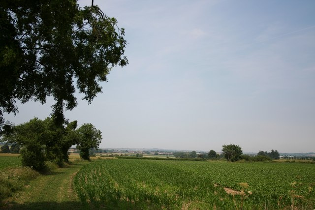 View towards Horncastle. View across farmland between Dalderby and Scrivelsby.